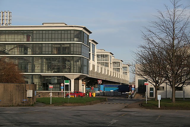 Boots the Chemist - D10 building This building was built in 1930-32 to the design of Sir Owen Williams soon after the company moved to the Beeston site. Pevsner considers it to be one of the best twentieth century buildings in the county. The south front seen here shows how the cantilevered concrete construction allows the upper stories to be cantilevered out over the loading bays giving protection without any intermediate pillars. The mushroom-topped pillars which are used throughout and enable the intermediate floors to be relatively shallow, can be well seen in the nearest corner. They also enable a continuous run of glazing without intermediate pillars.